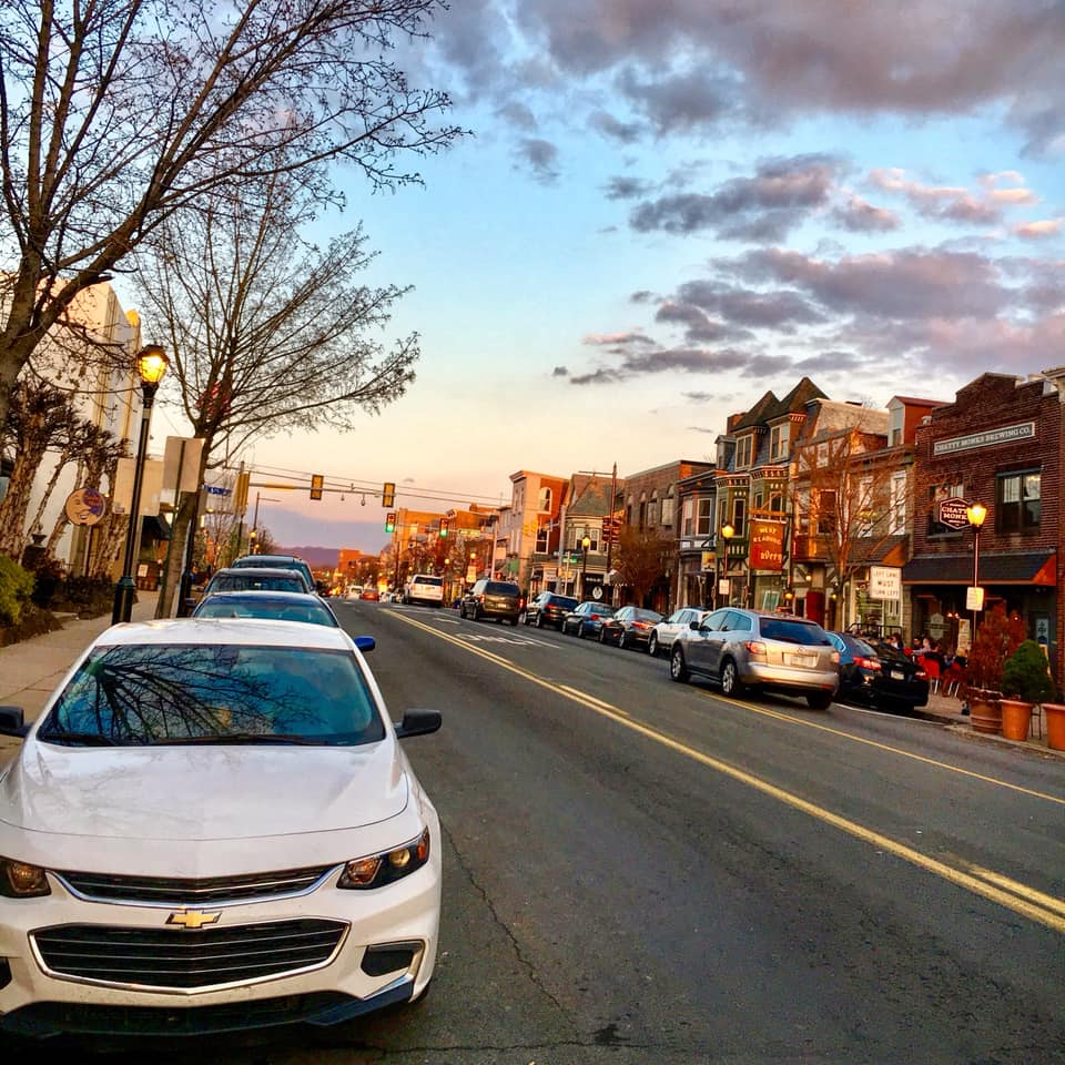 Penn Avenue on a spring evening.